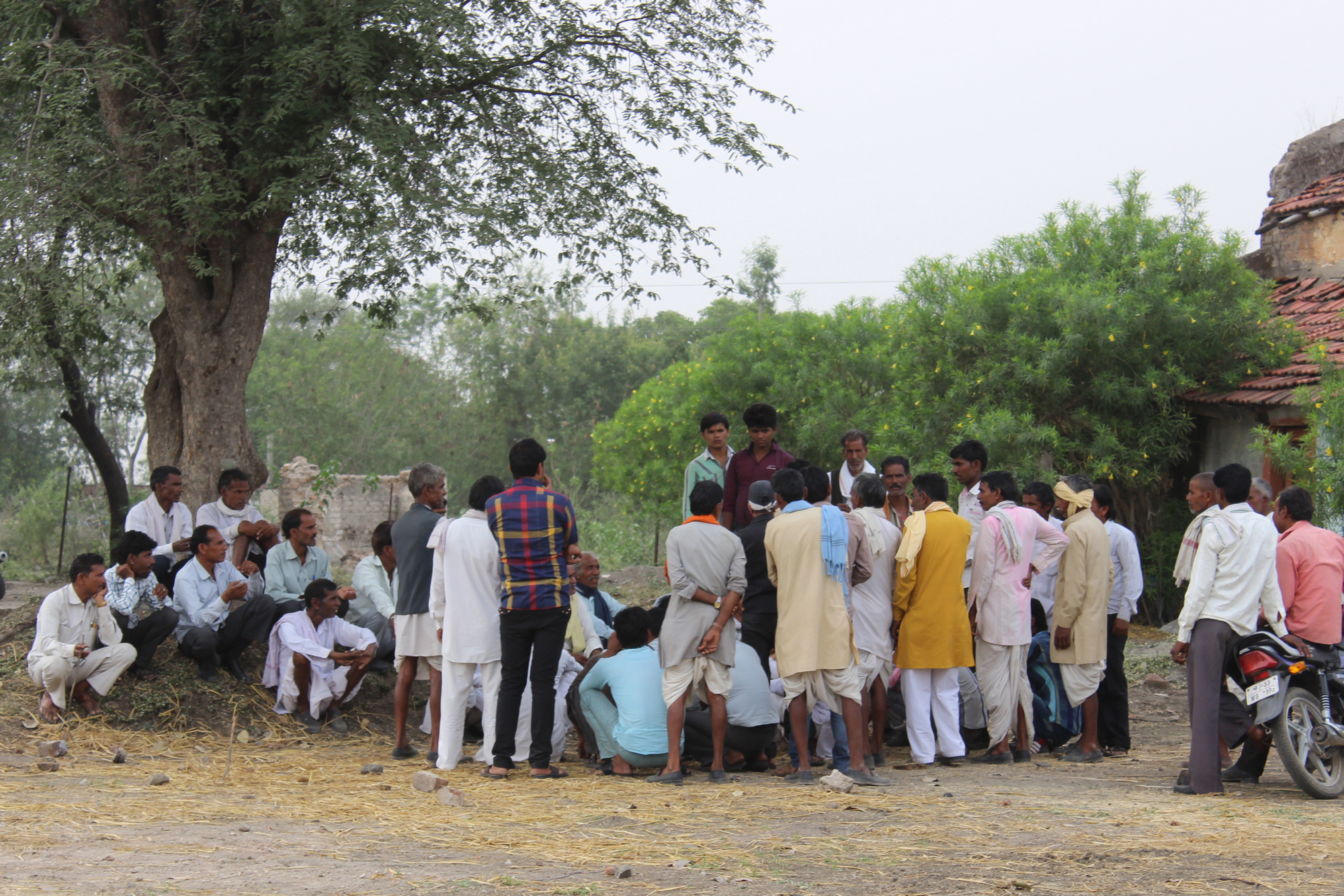 Open Panchayat Near Narsingarh MP India